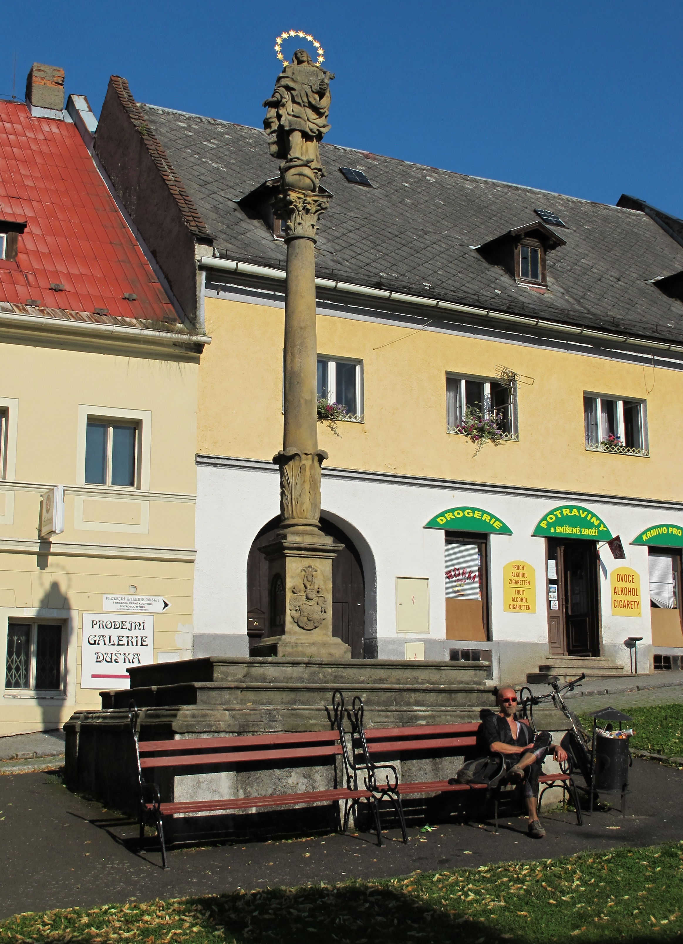 Column in Bečov nad Teplou - town in Karlovy Vary District (Czech republic)